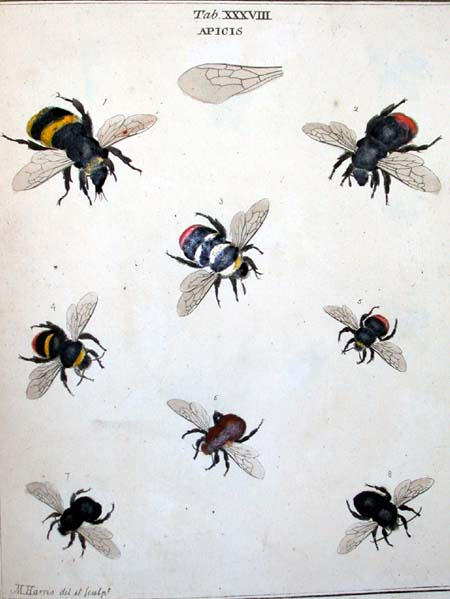 Plate 38, Moses Harris: An exposition of English insects ... "minutely described, arranged, and named, according to the Linnaean system", London: 1782